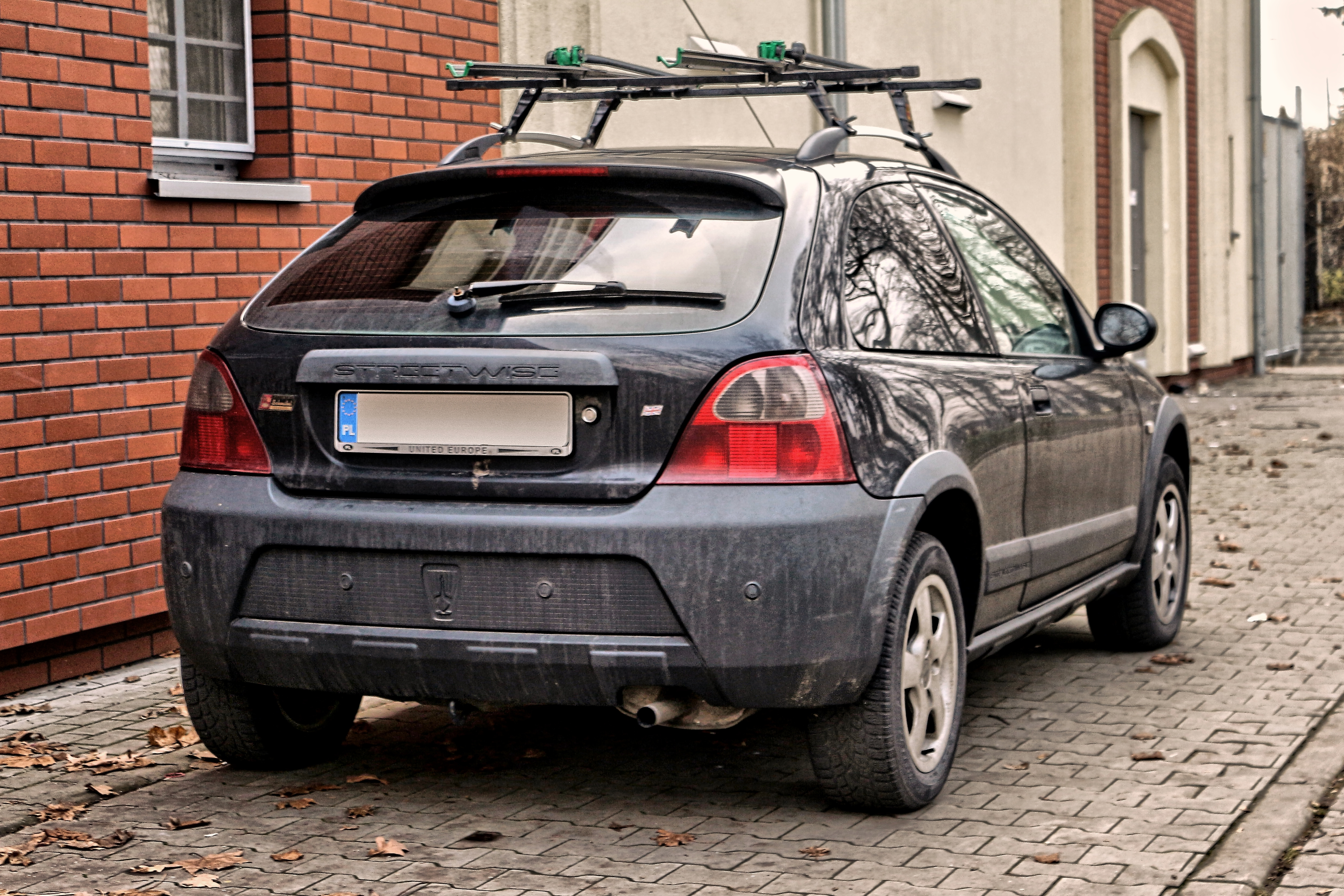 Rover 25 Streetwise